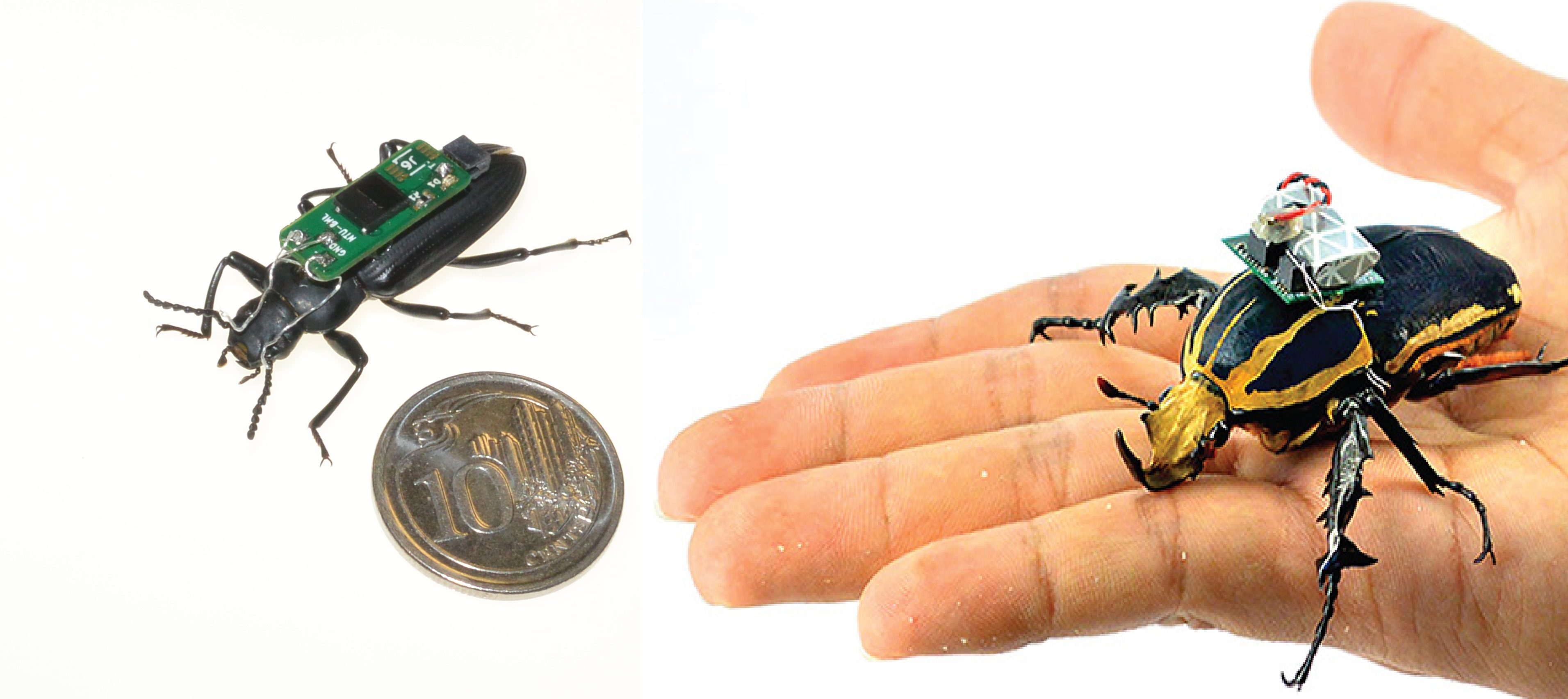 The photos were taken at Biological Machine Laboratory, NTU, Singapore